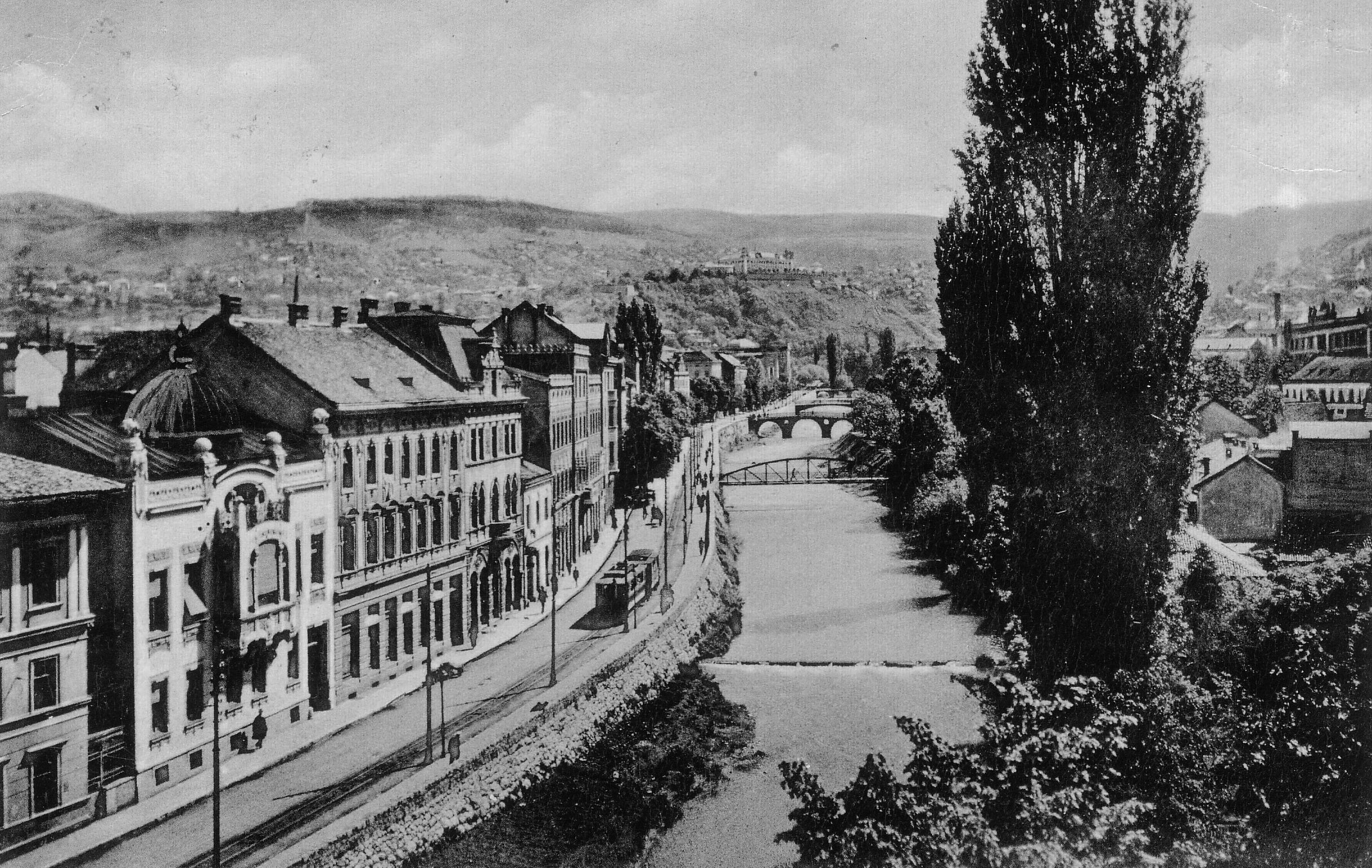 Photo of Miljacka river in Sarajevo, 1914. Latin Bridge can be seen in the distance.